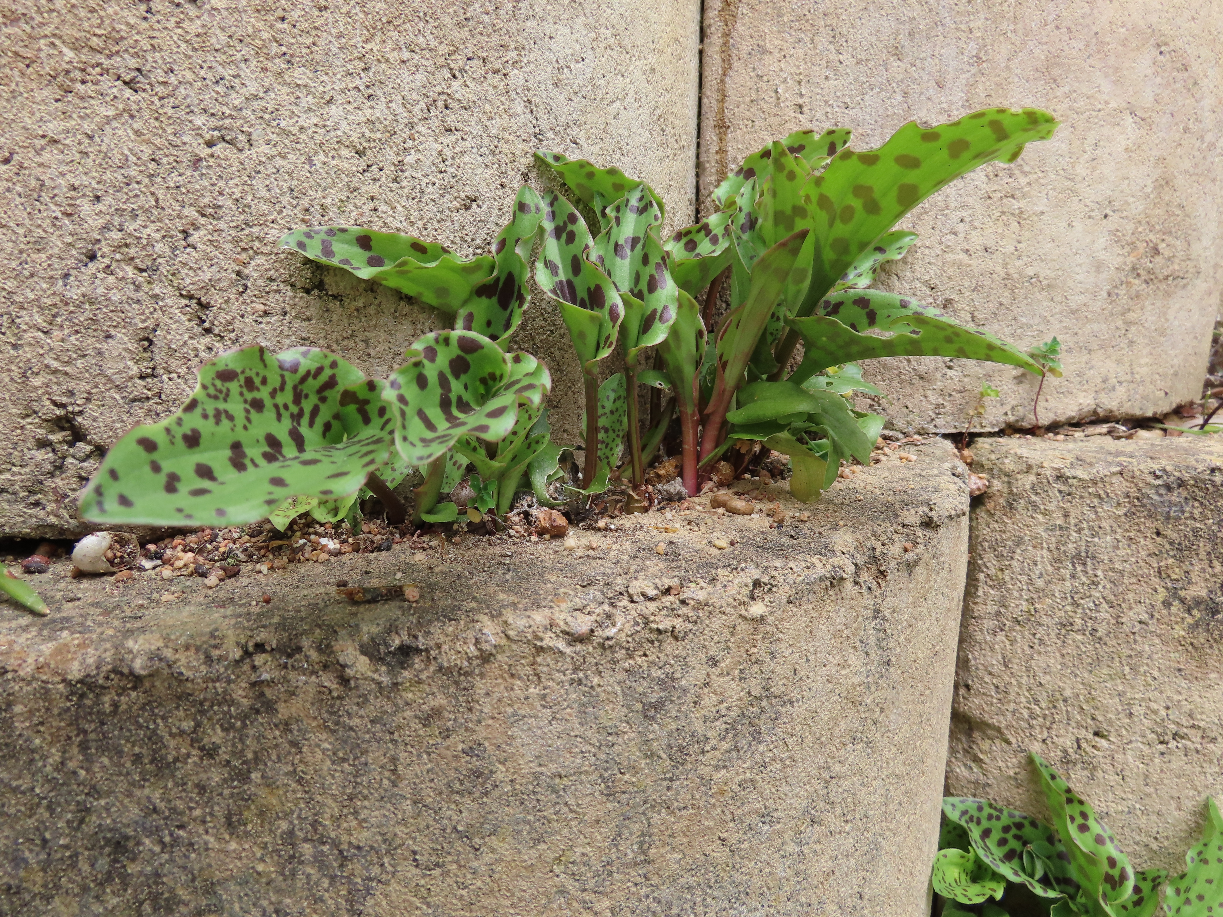 Acaulescent habit of Drimiopsis maculata means that it has no apparent above-ground stem